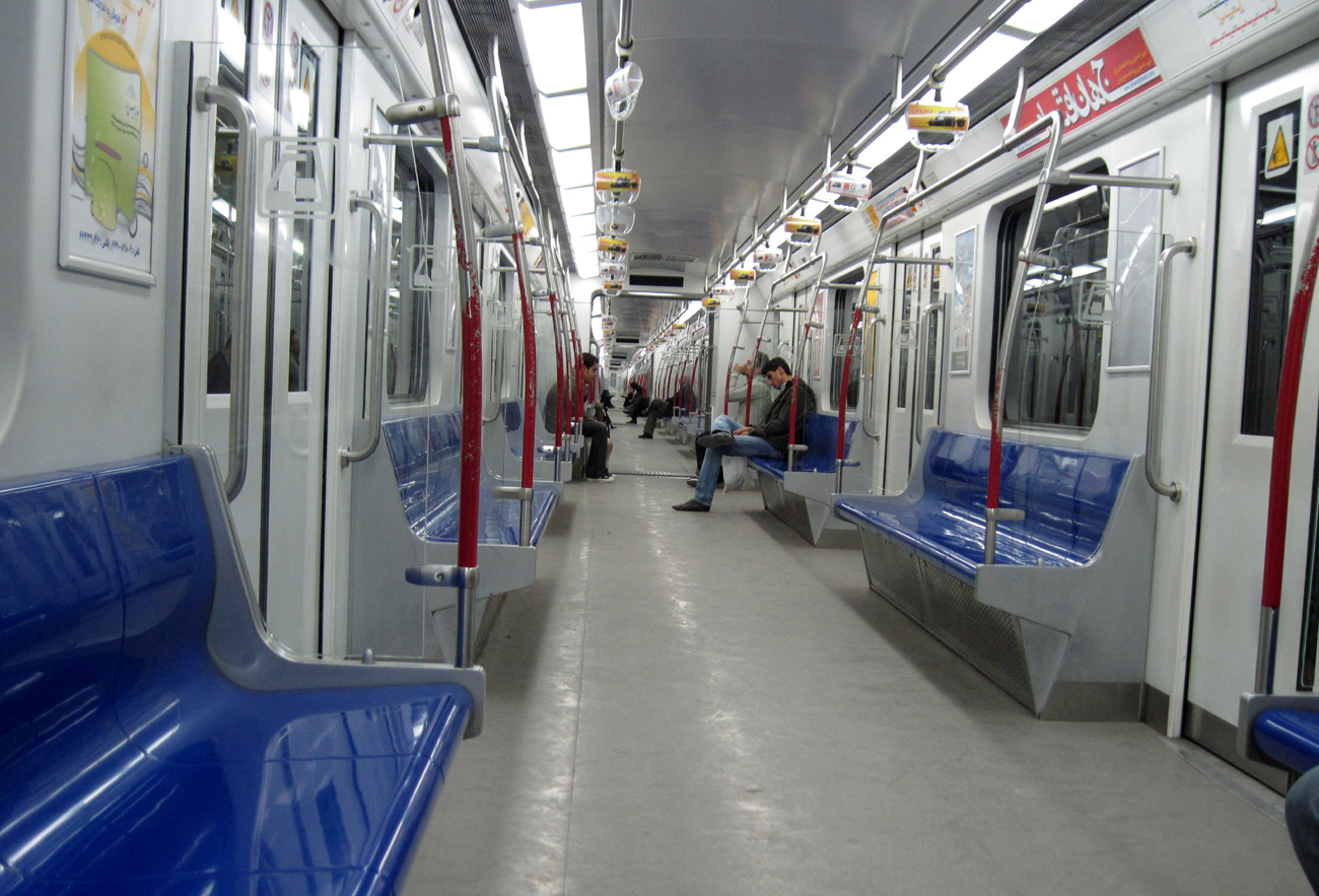 Tehran,subway train